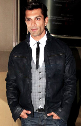 KSG at HS3 Trailer Launch